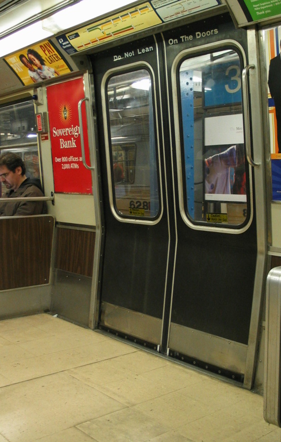 the door passage of a Path Train